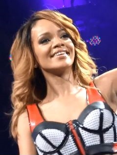 Rihanna performing at her Diamonds World Tour in Cologne on June 27, 2013.